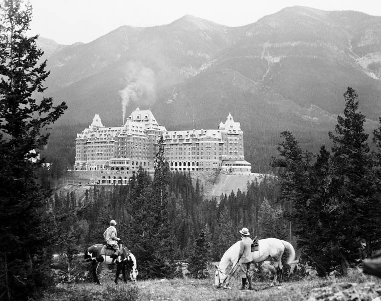 Banff Springs Hotel, October 1929, Banff Library and Archives Canada: PA-058085